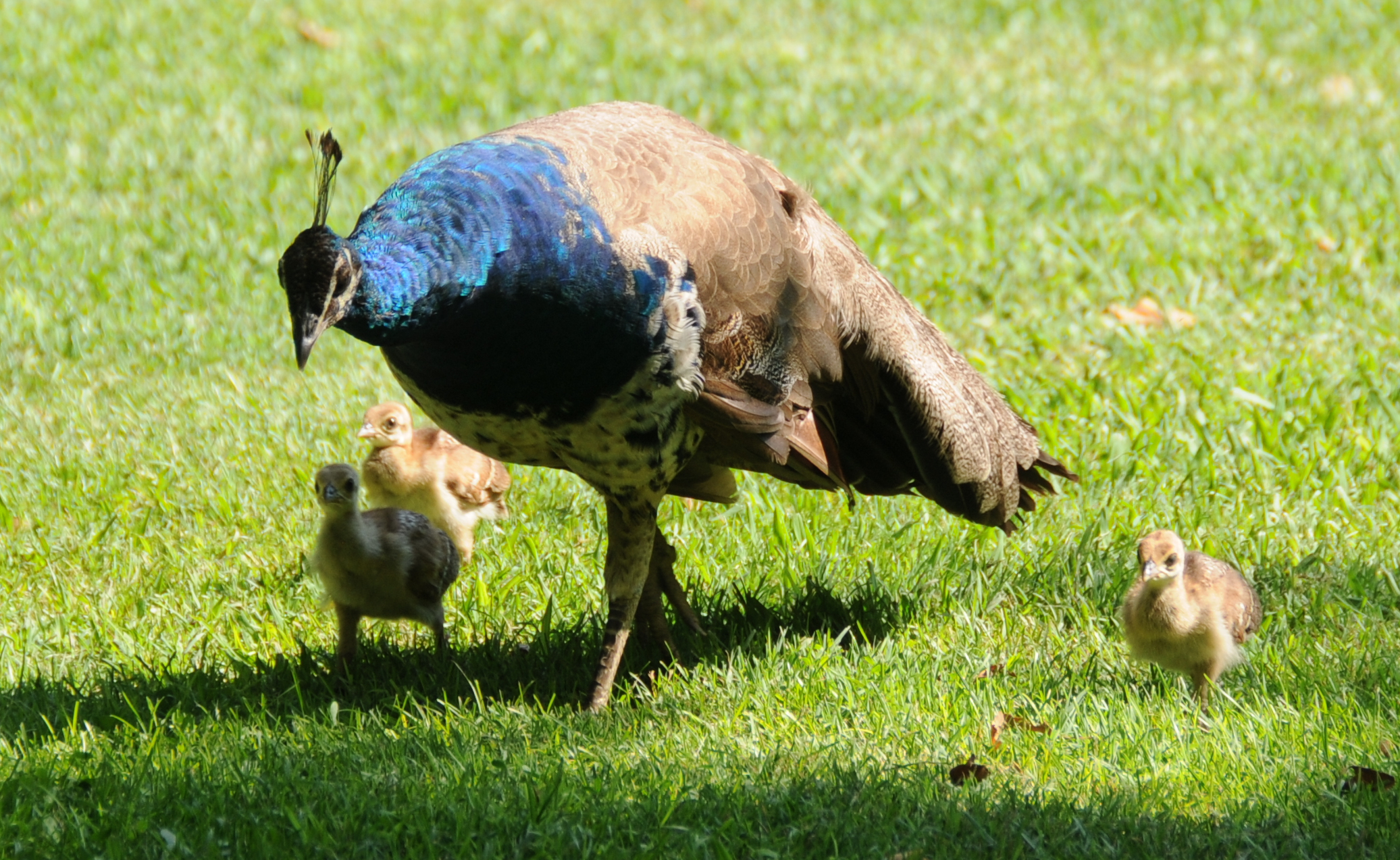 This photograph was taken with a Nikon D300 Paon bleu (Pavo cristatus) avec ses petits.